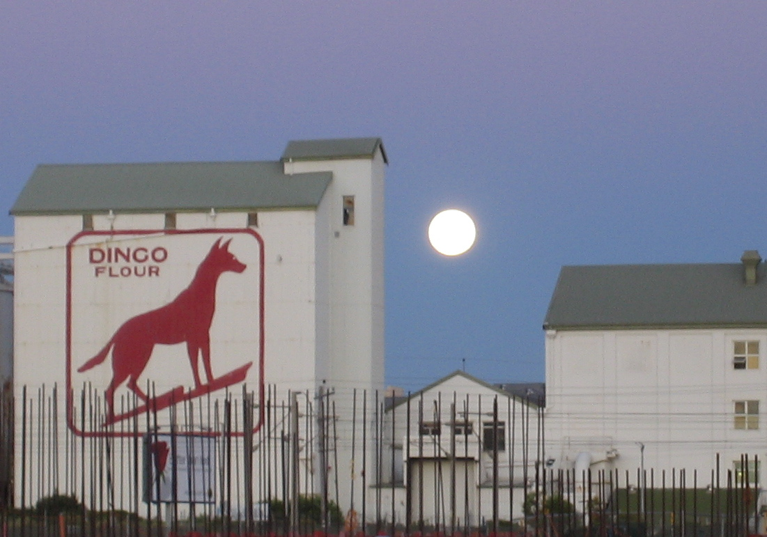 Dingo Flour sign, in Fremantle, Western Australia